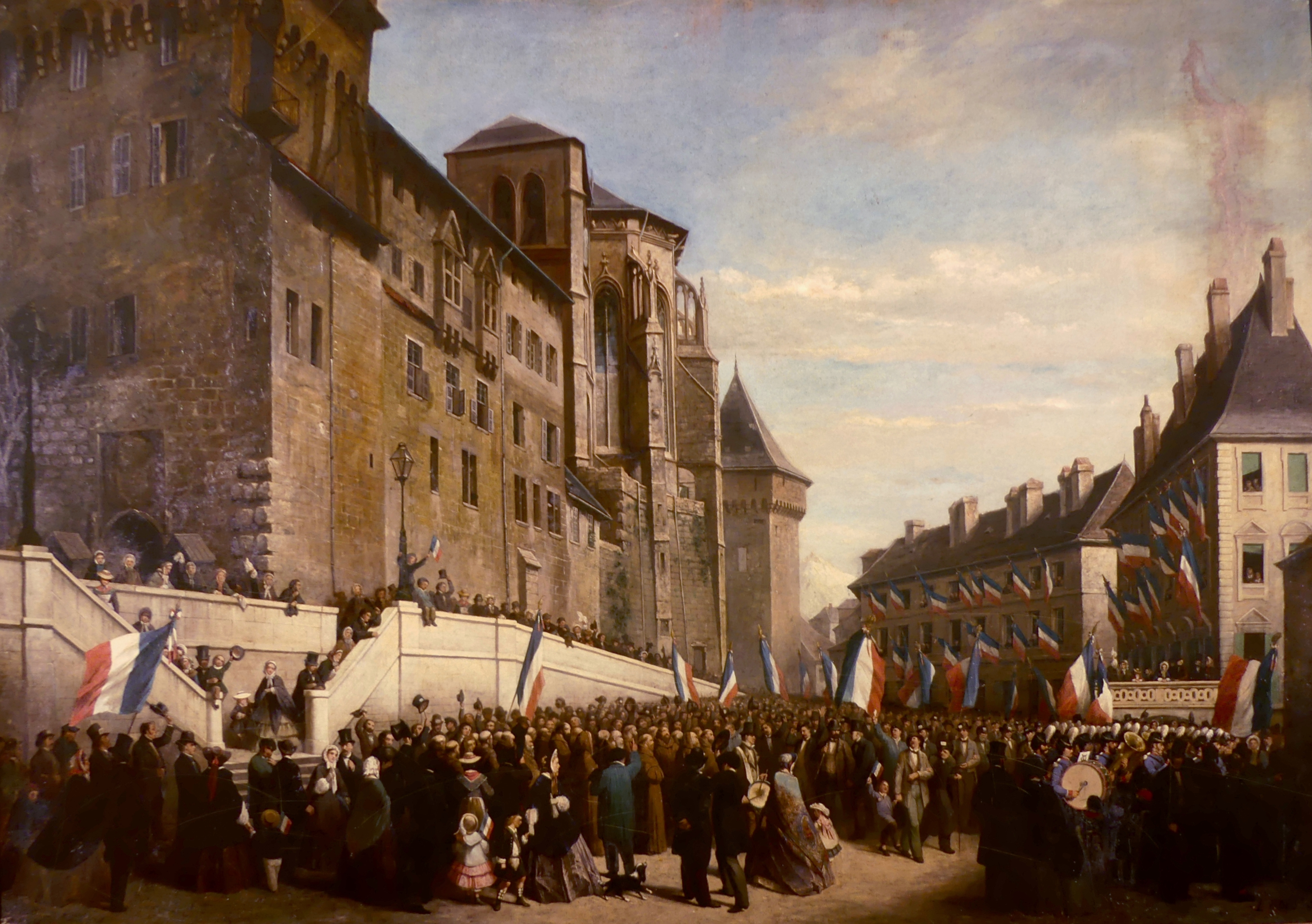 Picture of a painting showing the people of the city of Chambéry waving French flags at the city's castle, while the Duchy of Savoie is made part of France in 1860.